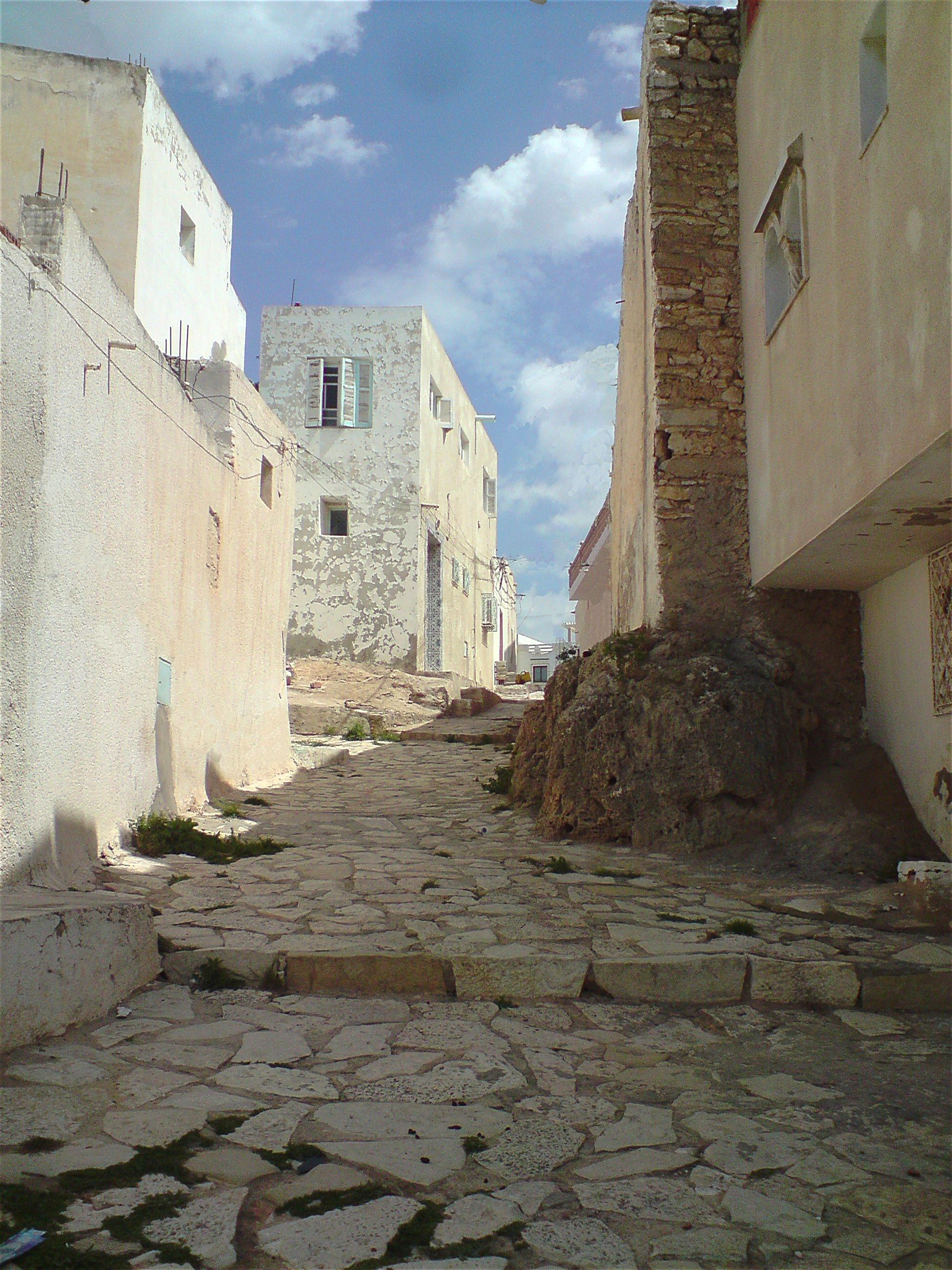 An antique alley in Sayada's Medina / Tunisia